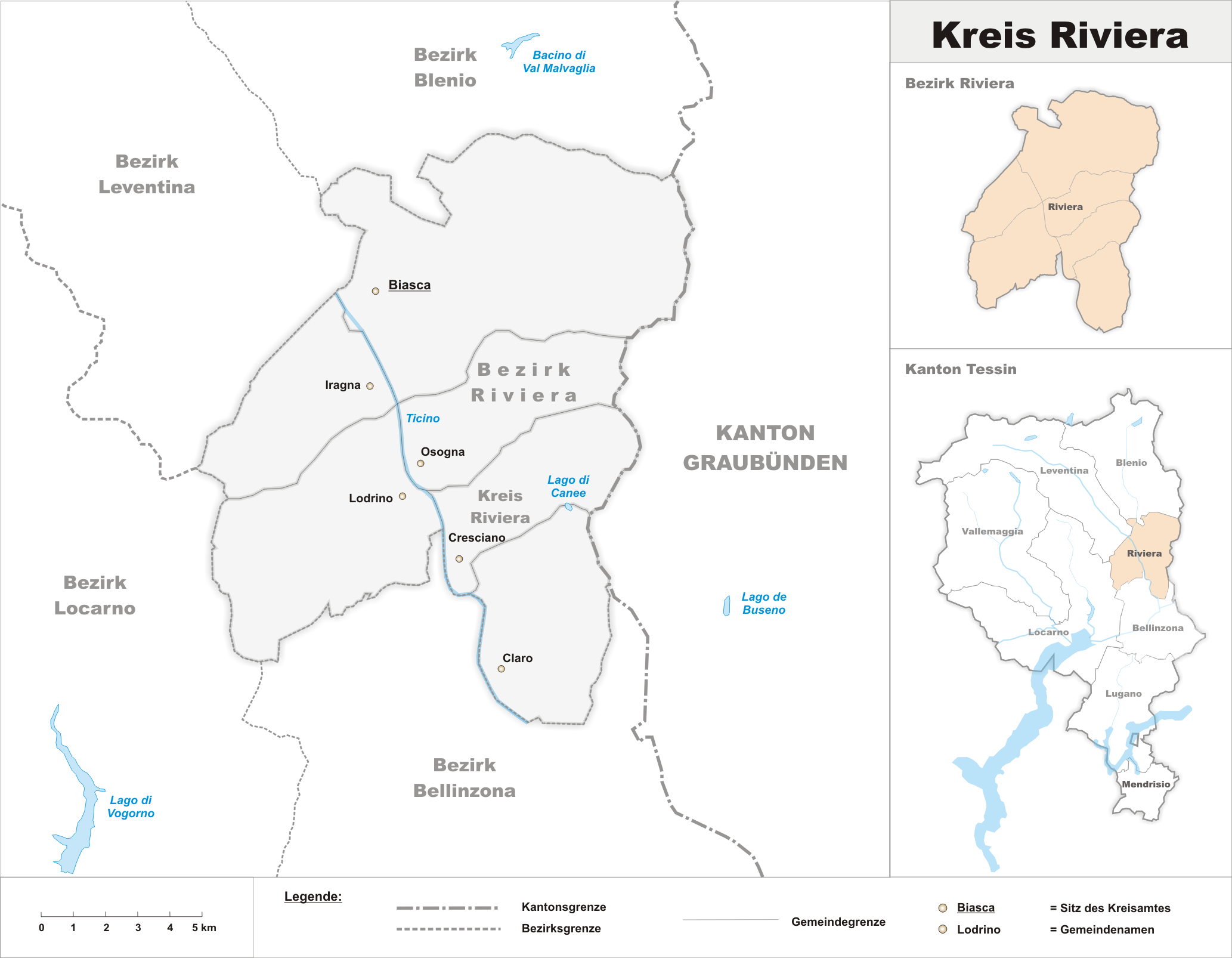 Municipalities in the circle of Riviera